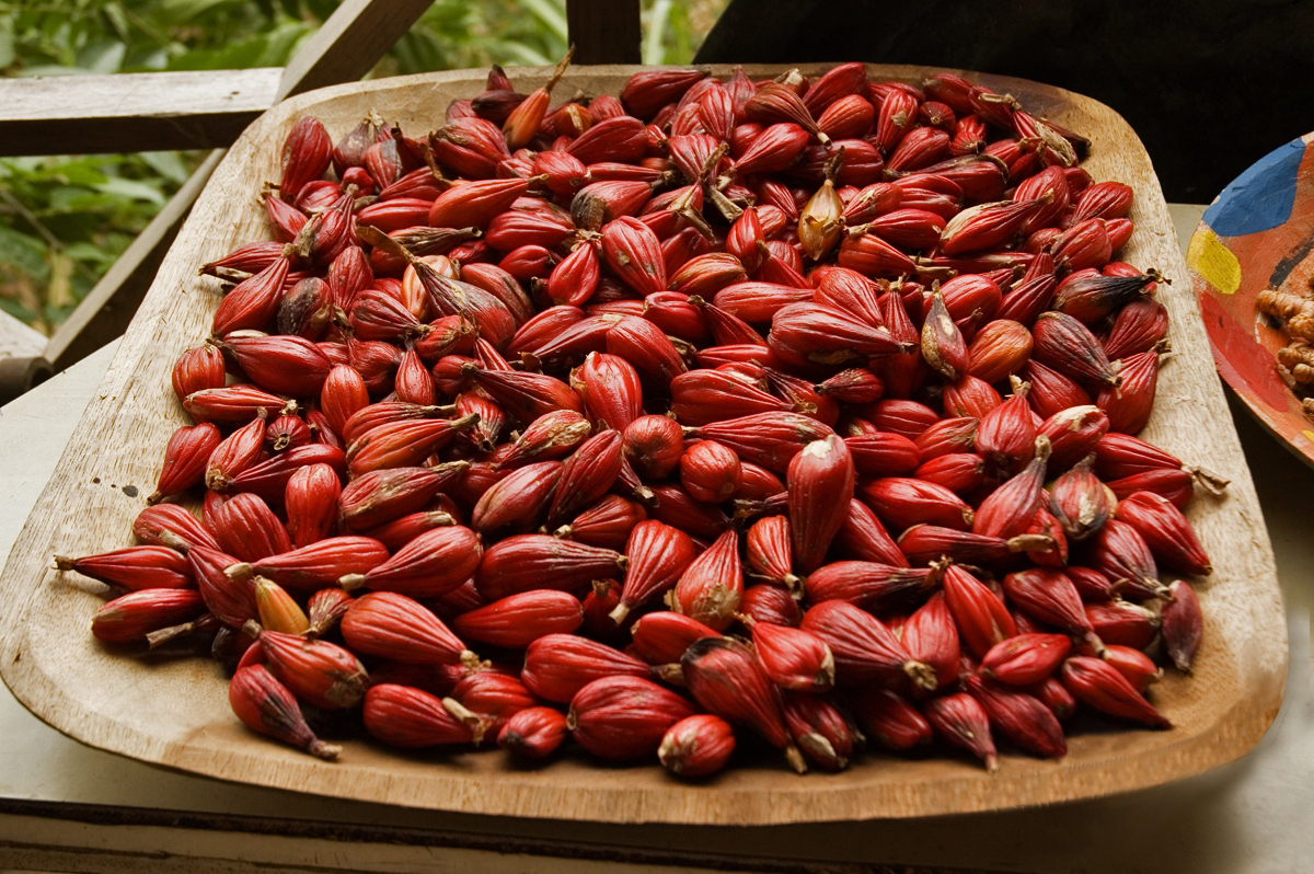 Grains of paradise (Aframomum melegueta) pods. Photo taken at the Roça São João dos Angolares in São João dos Angolares, São Tomé Island, São Tomé and Príncipe, with a Nikon D70 digital camera.